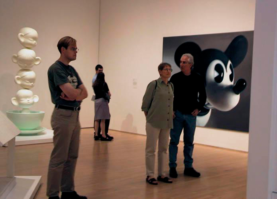 "Mouse I", by Gottfried Helnwein at the SFMOMA San Francisco Museum of Modern Art, 'The Darker Side of Playland: Childhood Imagery from the Logan Collection', 2000